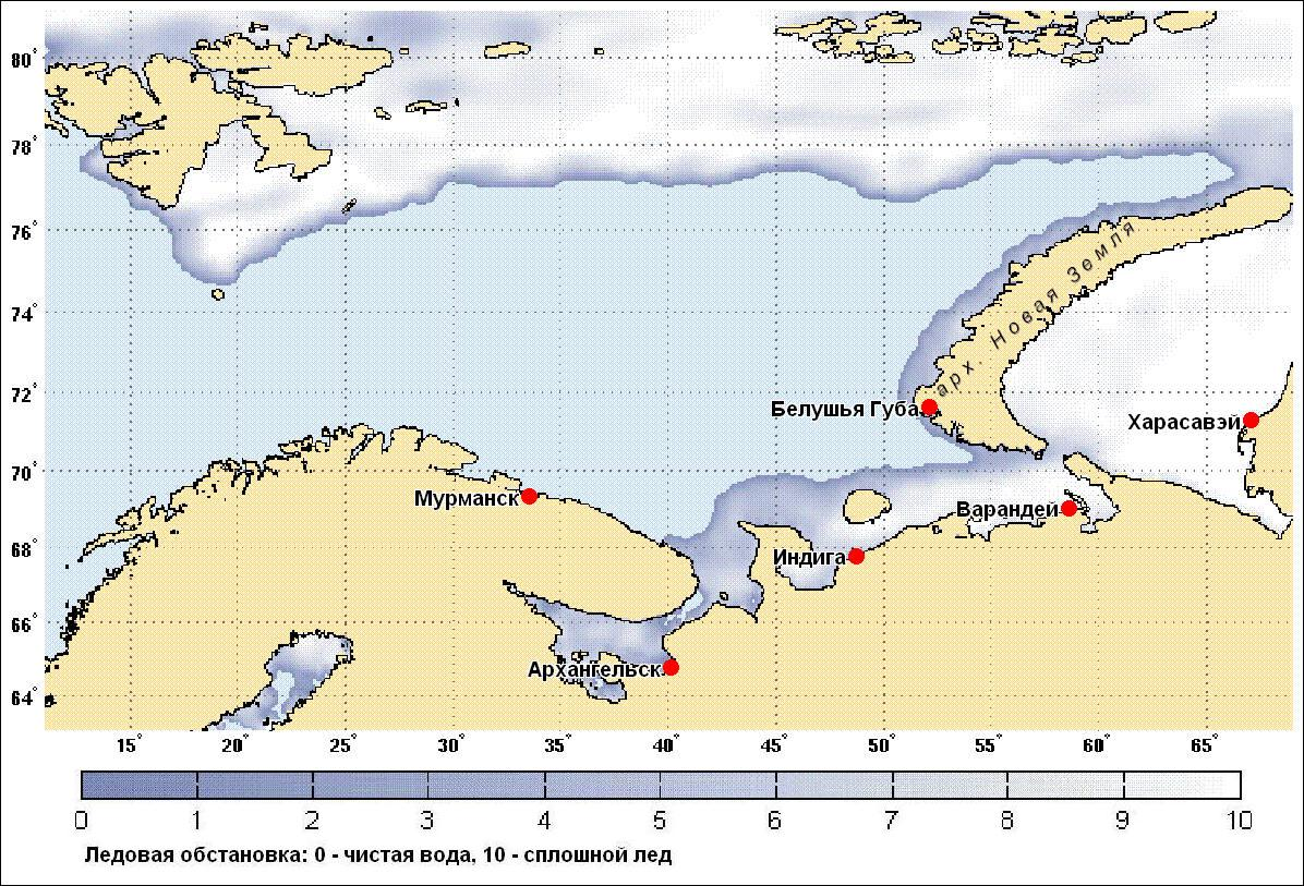 Ice cover (Barents Sea, January 2009)